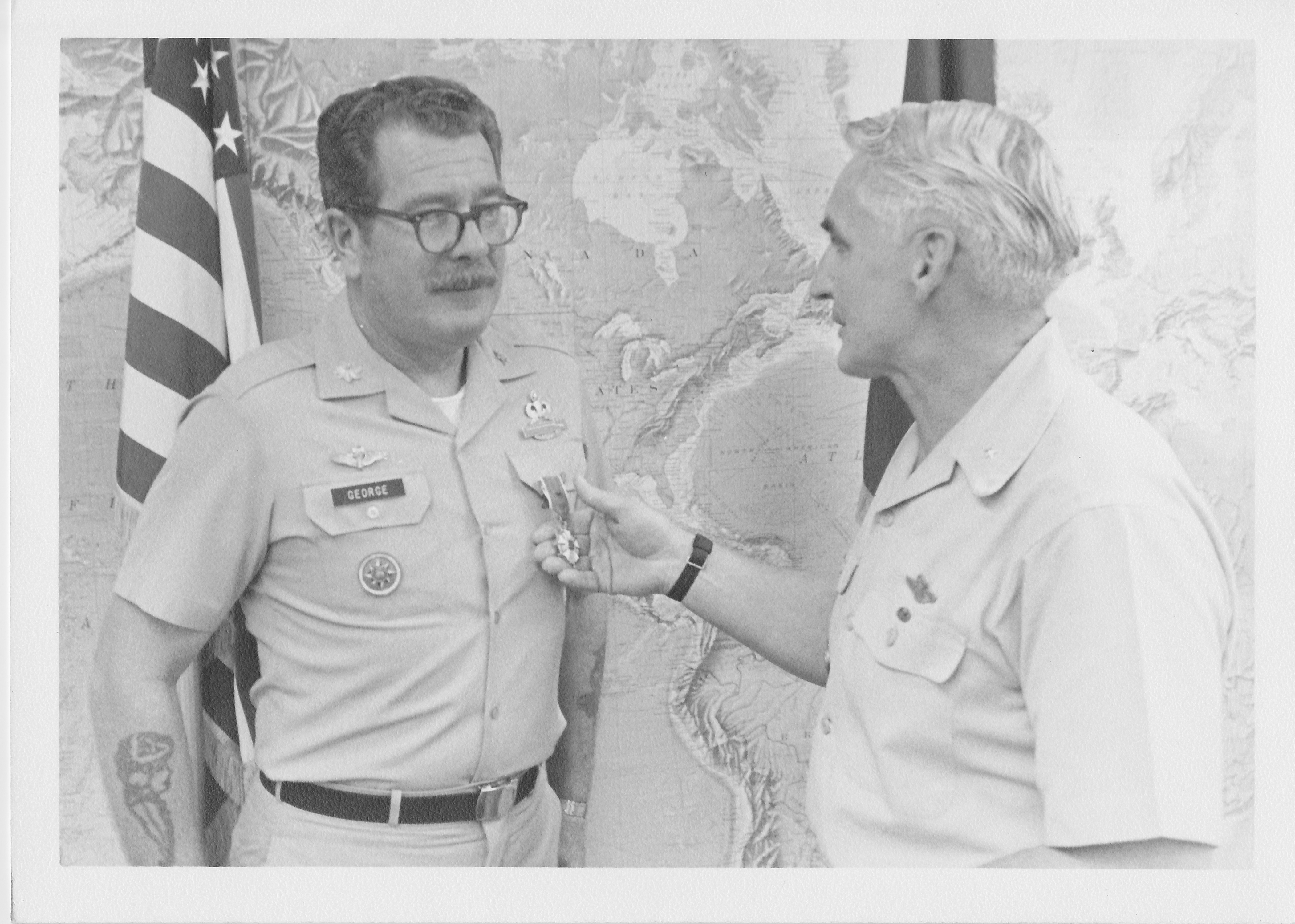 Raymond L George receives Legion of Merit, First Oak Leaf Cluster from General Westmoreland, 1972